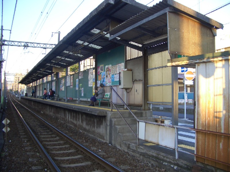 Platform of Ishigami Station